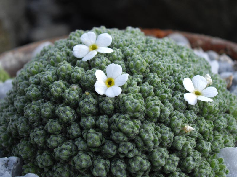 Androsace helvetica